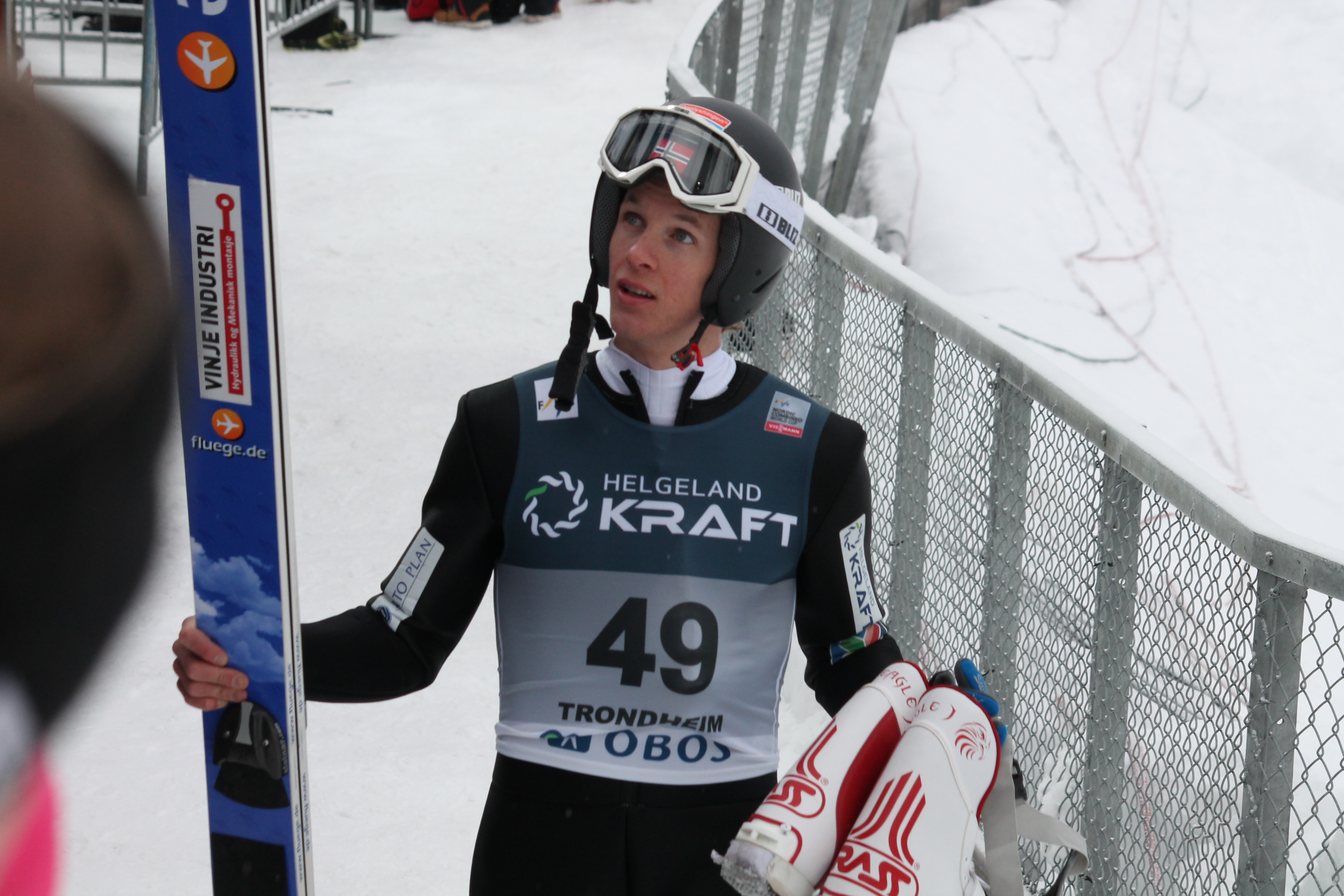 Magnus Krog of Norway after his jump during the Nordic Combined World Cup 10th February 2016 in Trondheim, Norway. This picture is taken during the jumping part.